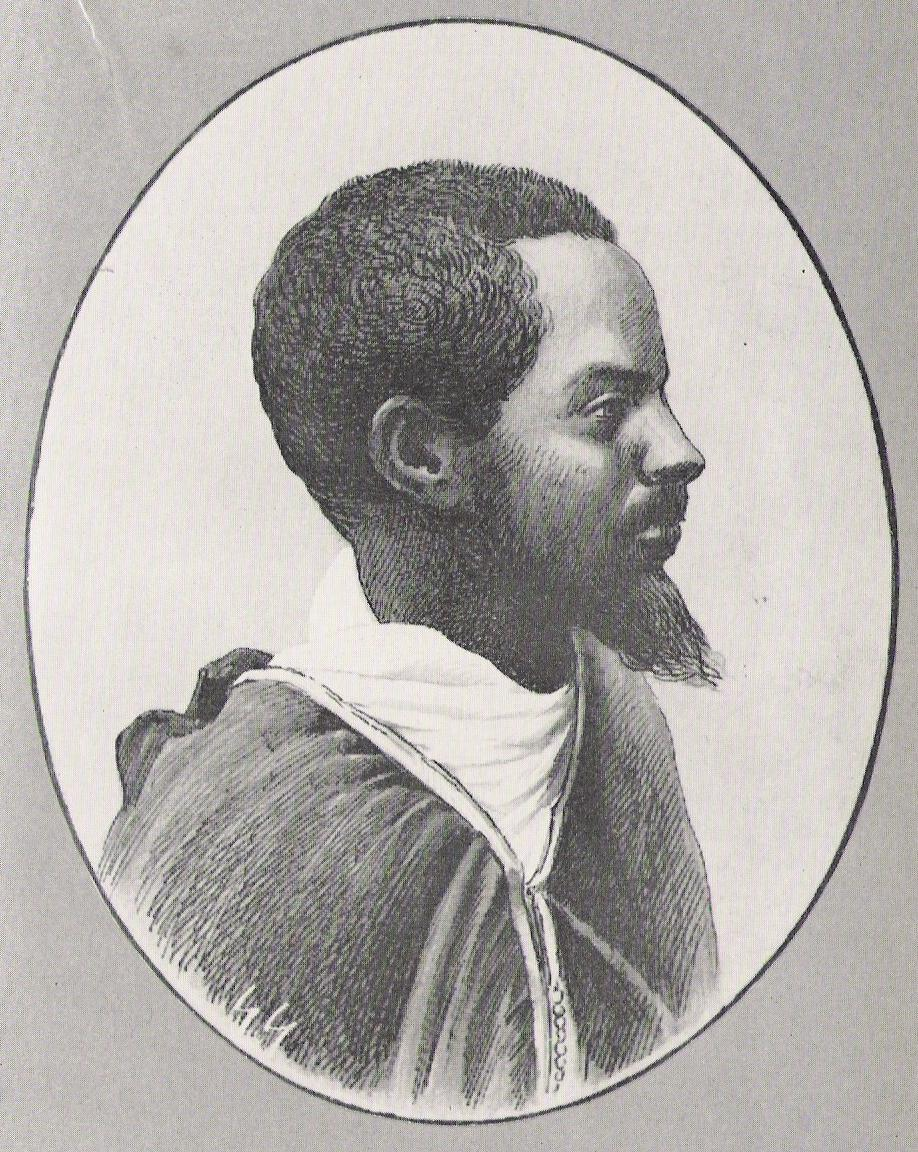 Ras Mekonnen Welde Mikaél